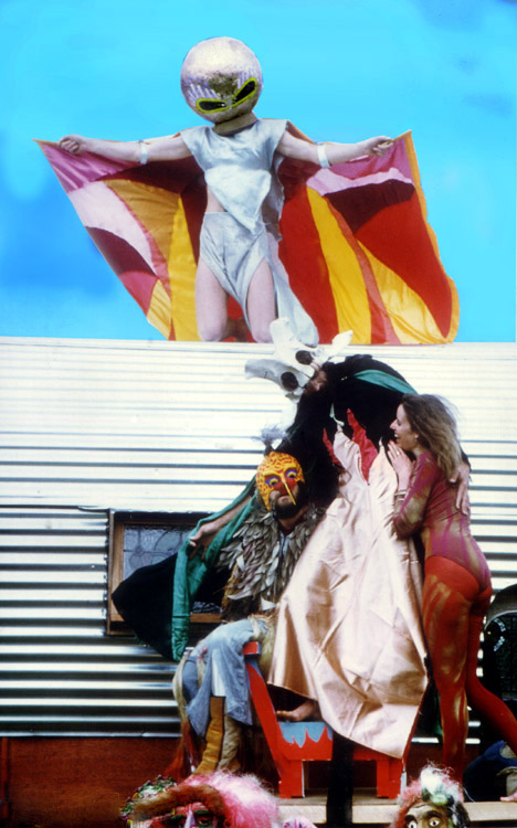 These photos were taken by the official Nambassa photographer at the 1978 Nambassa Winter Show in New Zealand. Photographer Paul Gilbert. Uploaded by Mombas 08:50, 3 May 2007 (UTC) Summary Terms of Use: 1/ All users of this image are required to attribute this work to "Nambassa Trust and Peter Terry" and the URL: " " is to accompany all use. 2/ Attribution. You must attribute the work in the manner specified by the author or licensor. 3/ For any reuse or distribution, you must make clear to others the license terms of this work. Statement by Nambassa Trust and Peter Terry